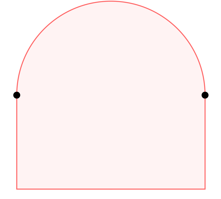 An example of a convex set having extreme points that are not exposed